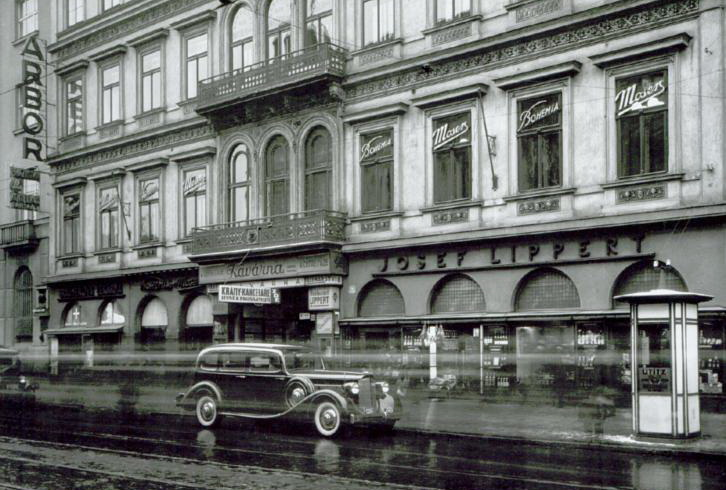 Prague, Černá růže, front view from the street Na Příkopě. Pre-war view.